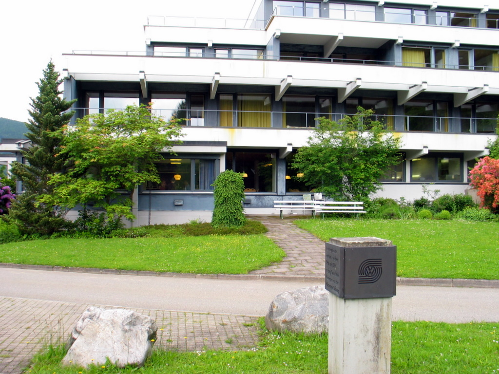 Mathematics Institute in Oberwolfach